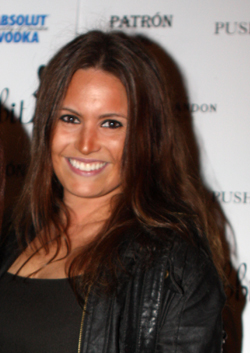 Ruby Rabbit Relaunch VIP Party Attracts Hip Crowd